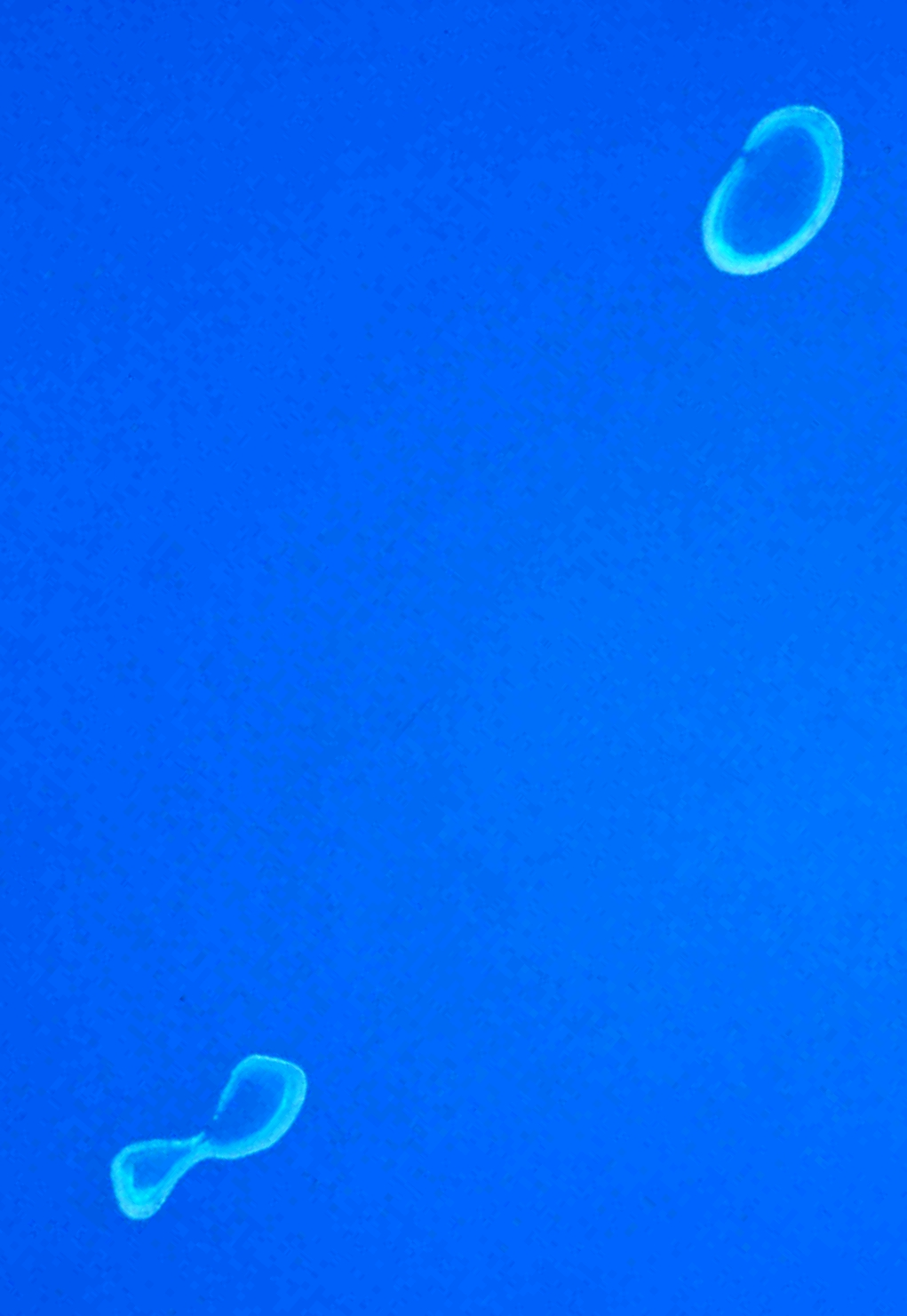 Minerva Reefs, Tonga, Pacific Ocean high res image requested color enhanced -40 % brightness +80 % contrast rotated +130° right (up = north) cropped